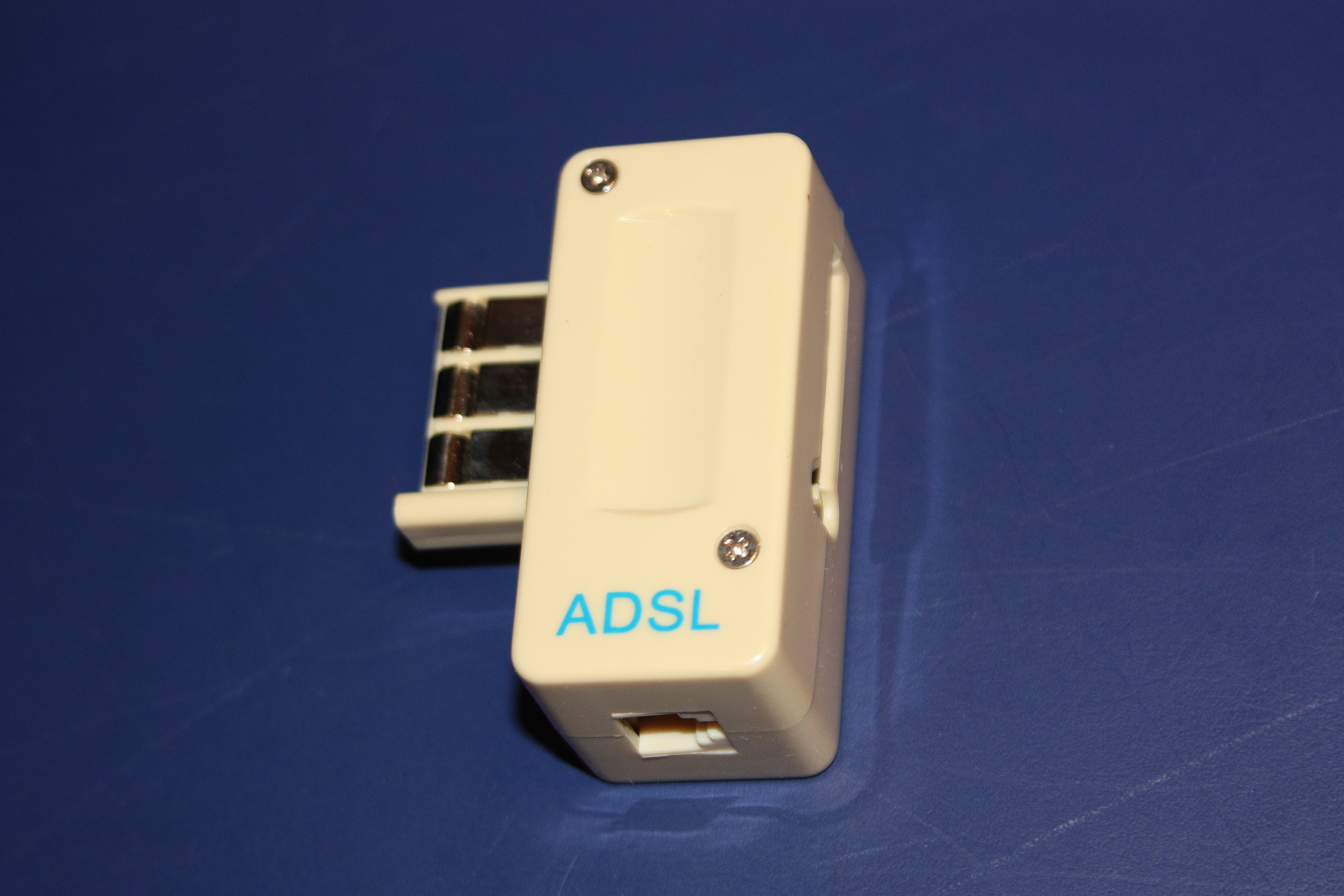 T-shaped ADSL splitter used on french POTS and other networks using similar standards.